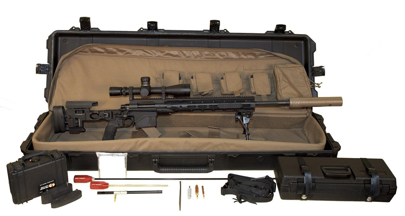 XM2010 with hard case, soft case, ammunition, and maintenance kit.